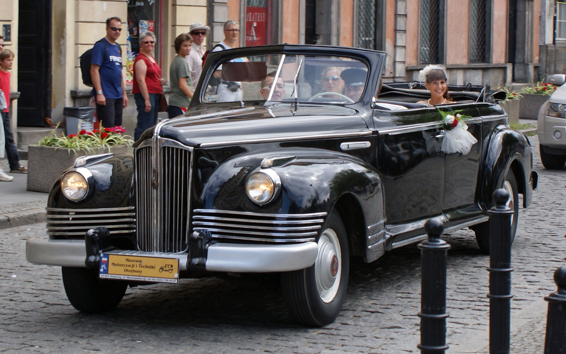 ZiS 110b Phaeton body